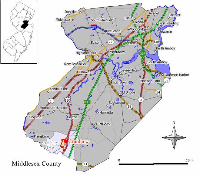 Description: Map of Cranbury CDP in Middlesex County, New Jersey Source: Jim Irwin Original work by Jim Irwin, December 2005.